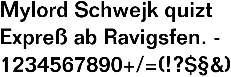 Typeface sample: Folio Medium